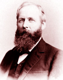 Portrait of the American geologist G.K. Gilbert (1843-1918), picture taken around 1885, found on the English wikipedia.